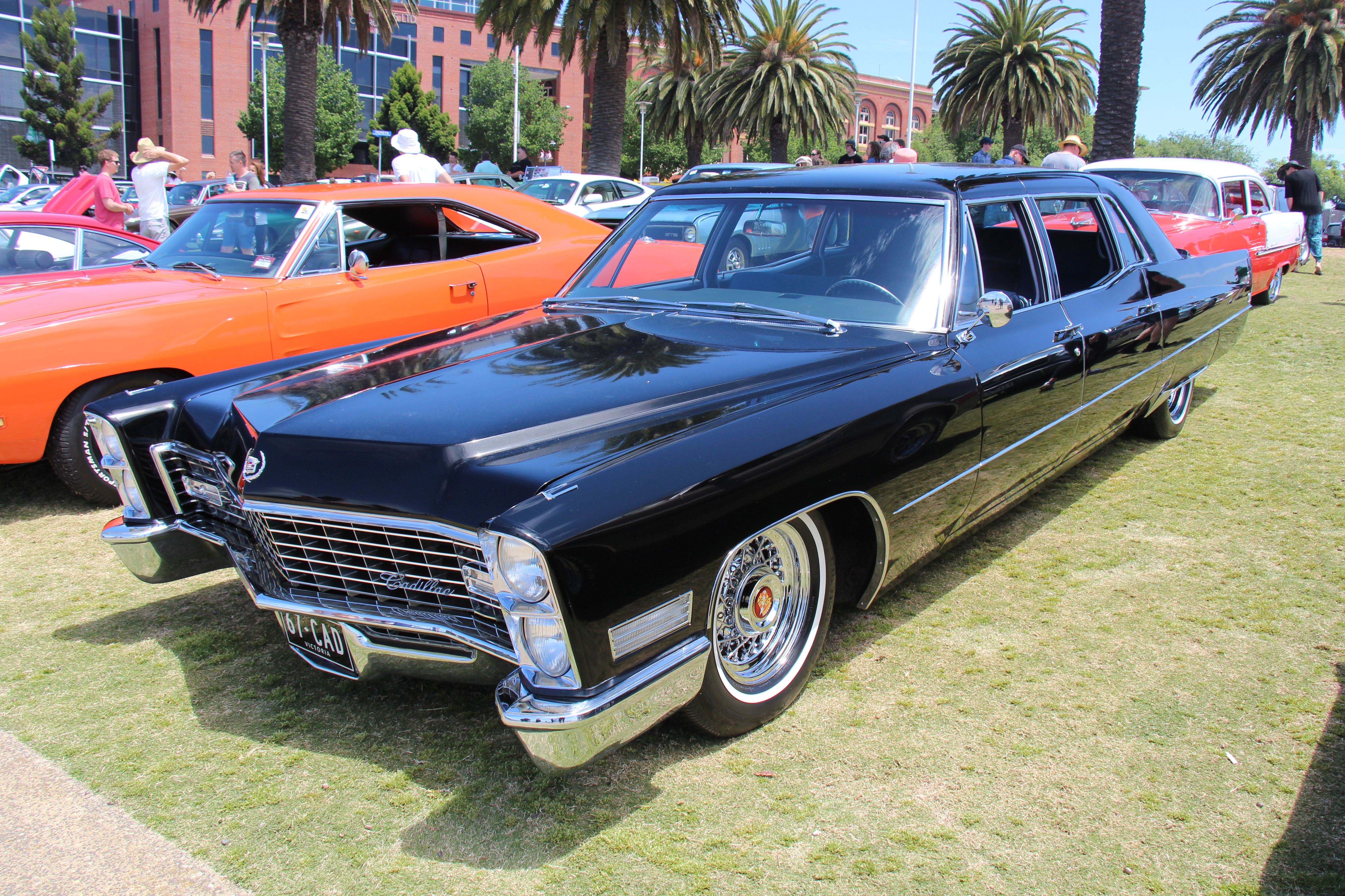 The Cadillac was redesigned in 1965, the tail fins were gone, it got sharp distinct body lines and featured vertically stacked headlights and vertical tail lights. The update in 1967 saw the front end now leaning forward and in 1968 the grille had a higher section in the centre and a finer mesh, the hood was also longer to allow for recessed windshield wipers. Available in 1967 was the base Calais in 4 door sedan, 2 and 4 door Hardtop, the mid spec deVille in the same but Convertible as well, and top spec Sixty Special Sedan (available with higher spec Brougham option), 75 Series Limousine and Eldorado